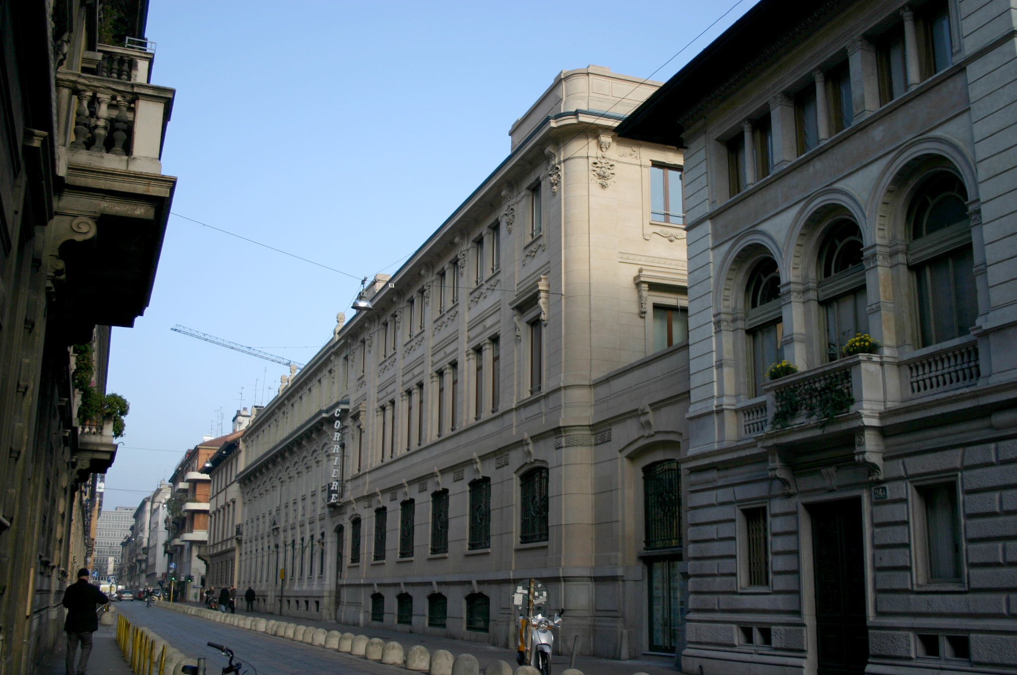 The building housing the most important Italian newspaper, "Corriere della sera" in via Solferino in Milan (Italy). It was projected by Luca Beltrami in 1904. Picture by Giovanni Dall'Orto, January 20 2007.